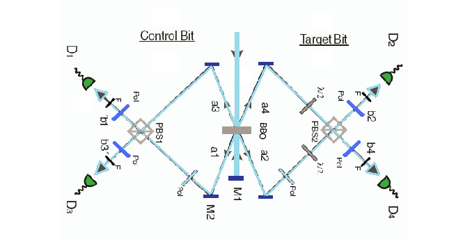 Author: Michelle Copyrights: All rights waived